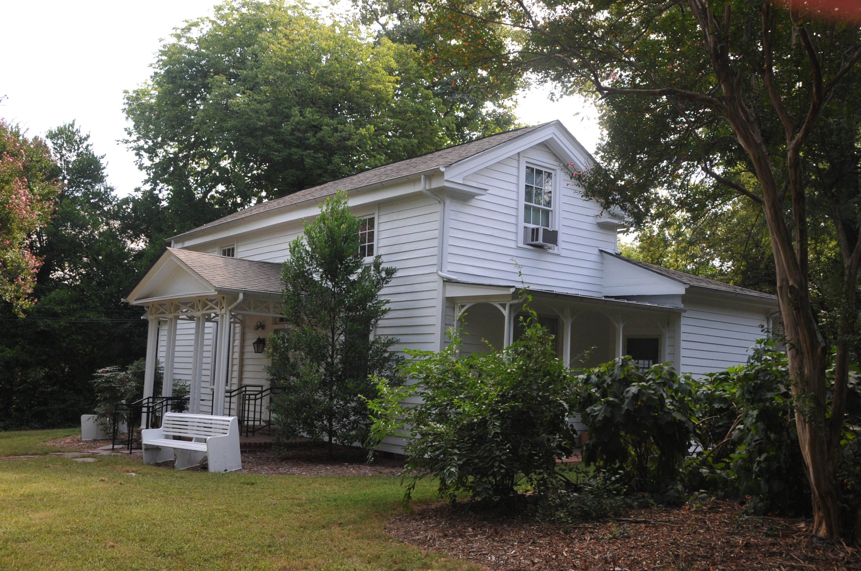 MALLETTE WILSON MAURICE HOUSE; 1845; ONE OF THE FEW ANTEBELLUM HOUSES IN THE DISTRICT; MOST HOUSES DATE IN THE EARLY 1900’S